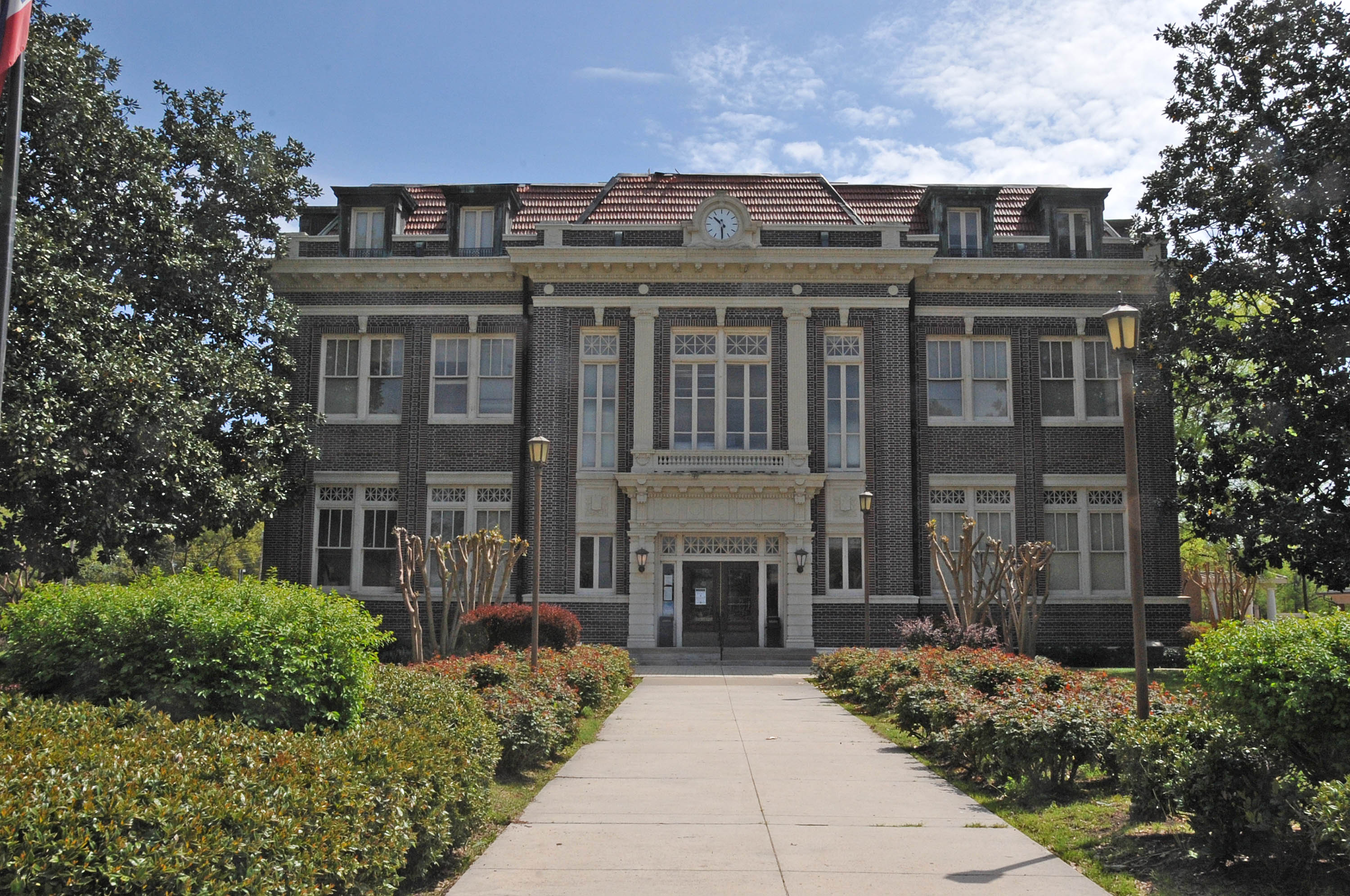 TUNICA COUNTY COURTHOUSE 1922-1923 BEAUX ARTS